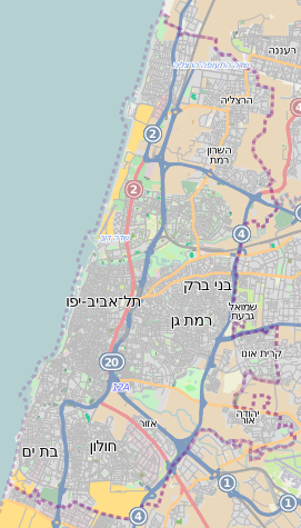 Location map of Tel Aviv, Israel: top: 32.208 bottom: 31.985 left: 34.729 right: 34.879